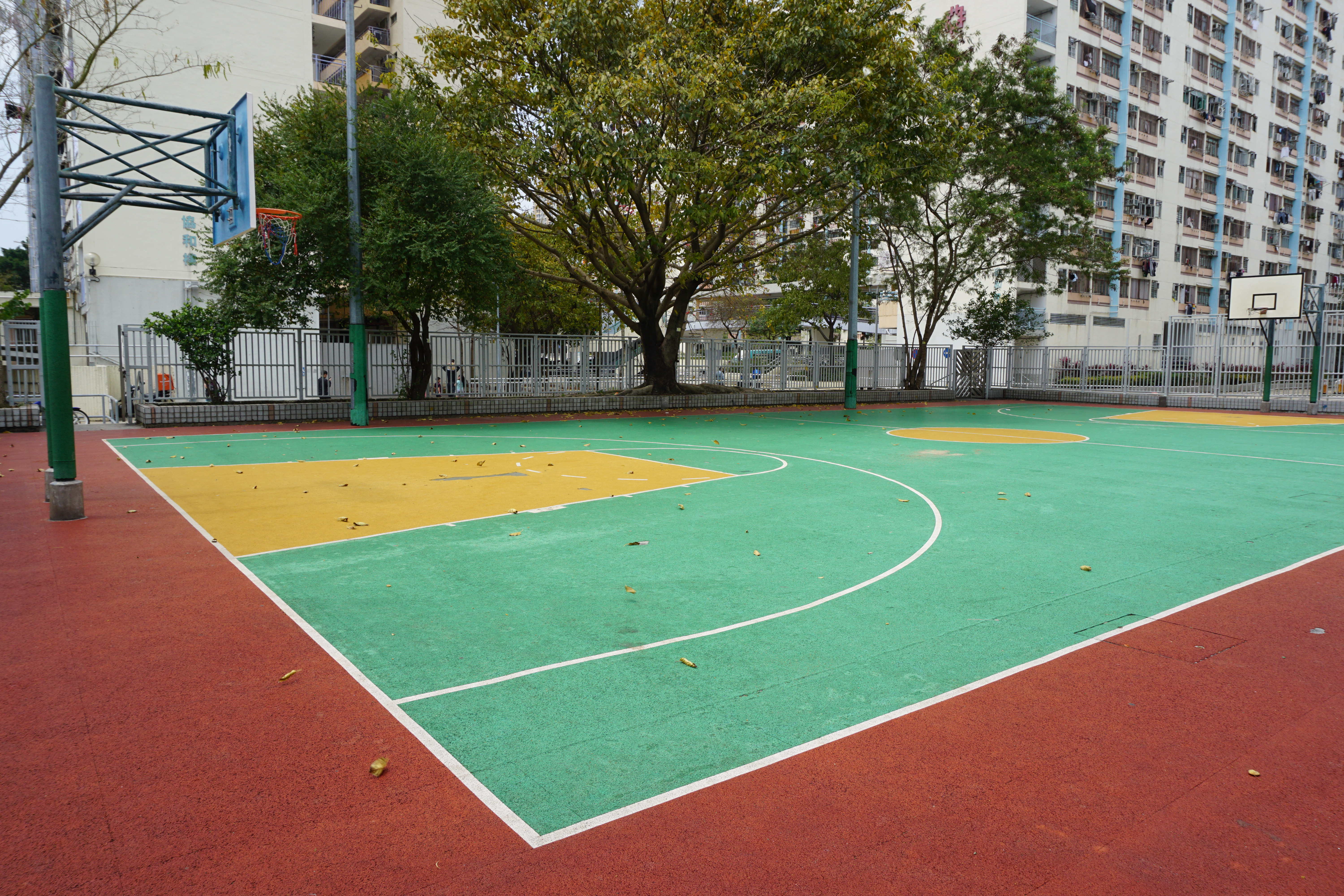 Wo Che Estate in Shatin, Hong Kong.